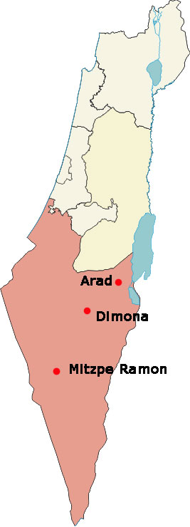 Main cities where Black Hebrews are living in Israel in 2007 (on a map of Israel's southern region). The most important is Dimona.